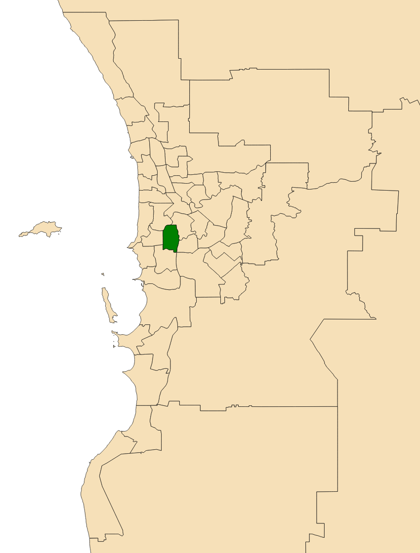 Location of the electoral district of Bateman in the Perth metropolitan area, Western Australia as of the 2017 WA state election.